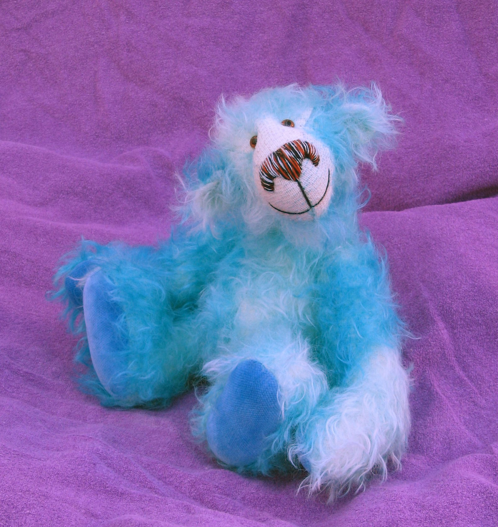 Artist teddy bear